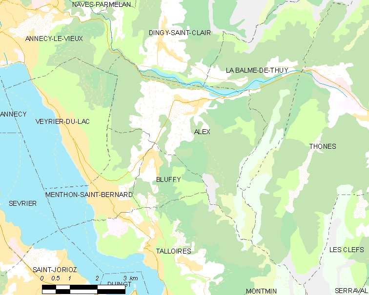 Map of French municipality Alex